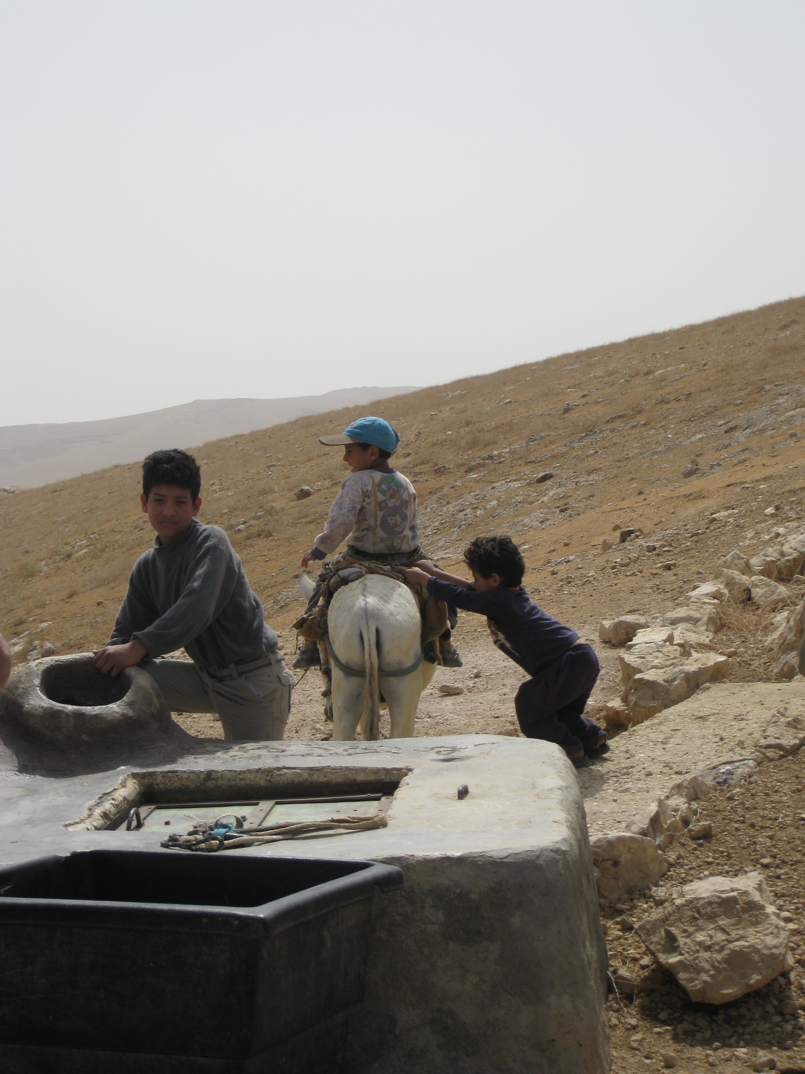 Judean Desert - bedouins